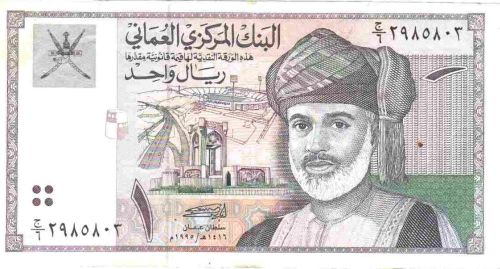 1 Oman rial (obverse)